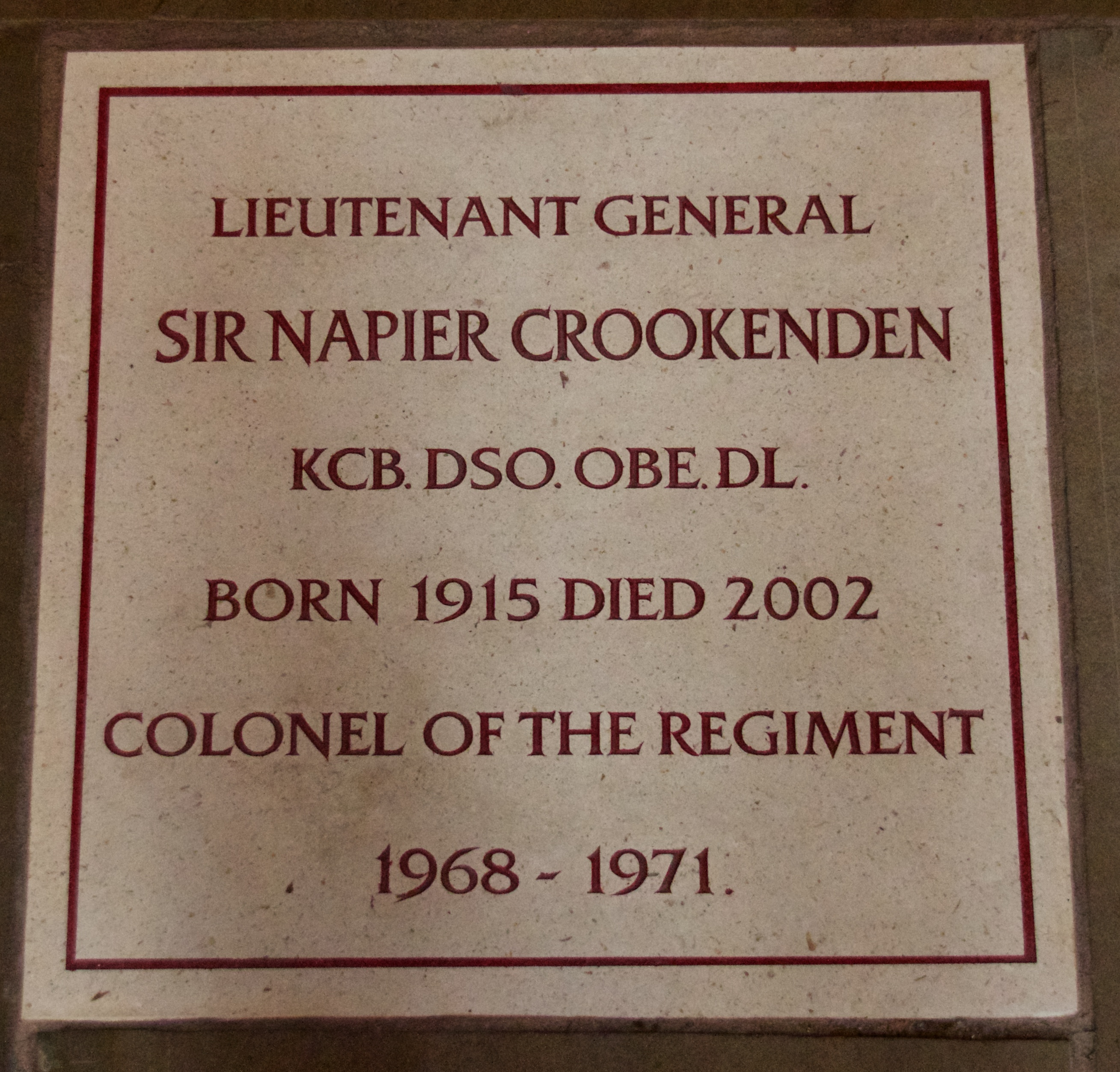 Memorial at Chester Cathedral. Reads "Lieutenant General Sir Napier Crookenden KCB. DSO. OBE. DL. Born 1915 died 2002. Colonel of the regiment 1968-1971." Taken as part of Wikipedia Takes Chester